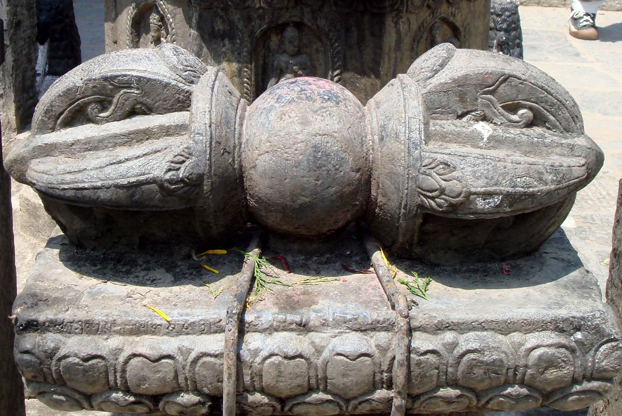 Large carved stone Dorje or Vajra in Patan, near Kathmandu, Nepal.